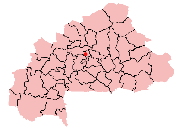 Boussé, Burkina Faso Location Map; created with the GIMP. Made by User:Acntx.